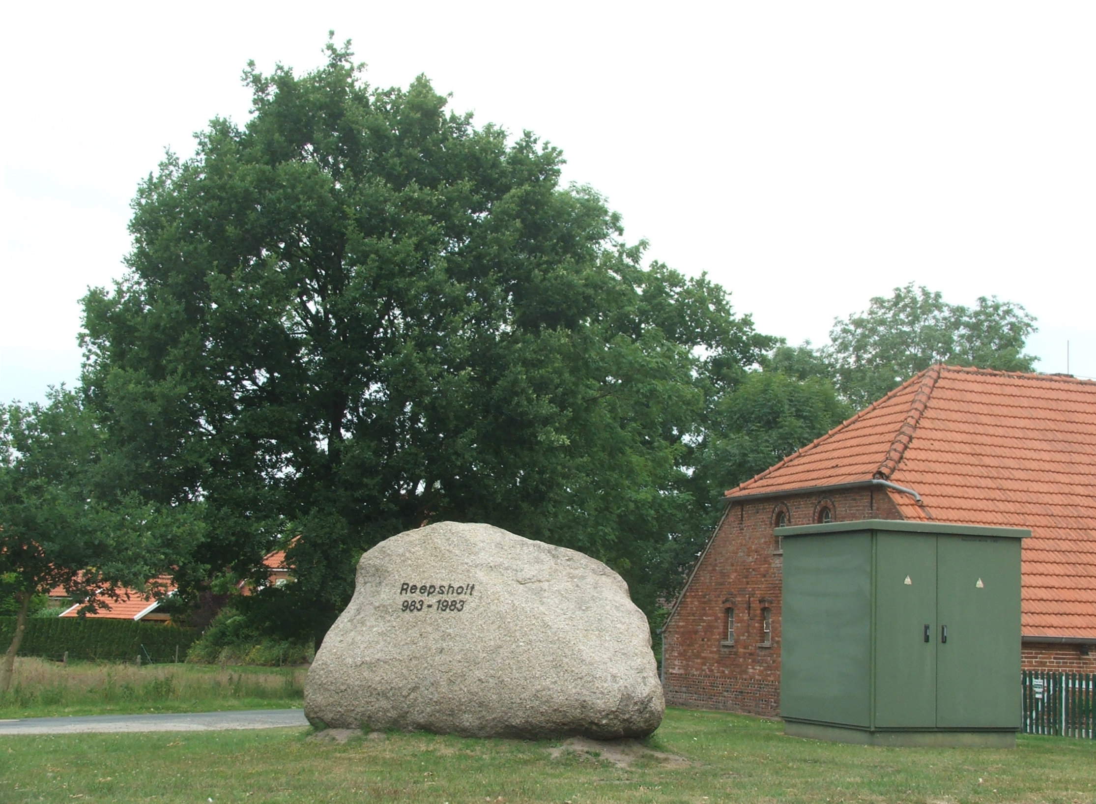 Stone for 1000 Jahre Reepsholt, Ostfriesland